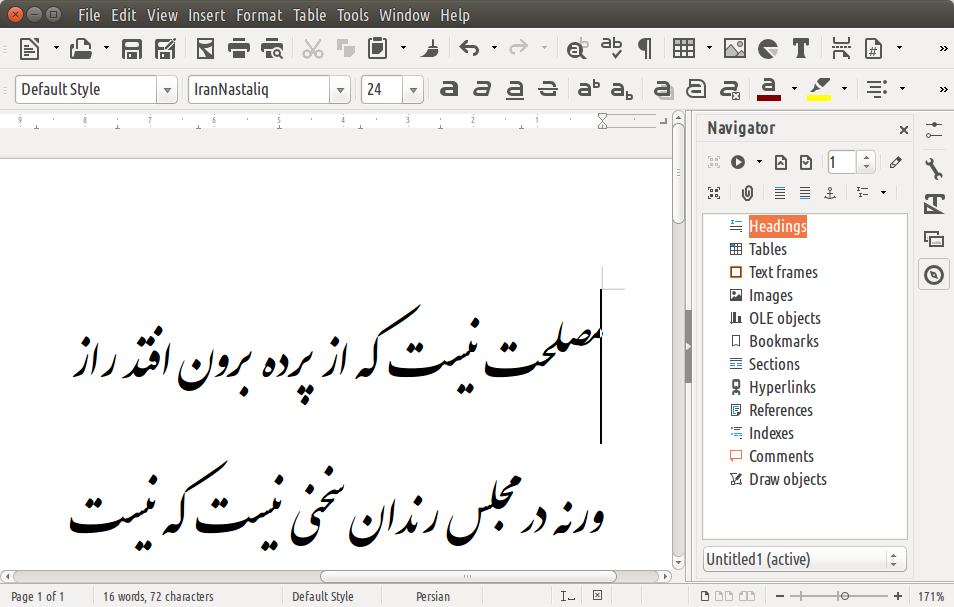 A screenshot from LibreOffice Writer the WYSIWYG Word processor of LibreOffice suit in Ubuntu_(operating_system) environment depicting RTL capabilities for a Persian poem line by Hafez.